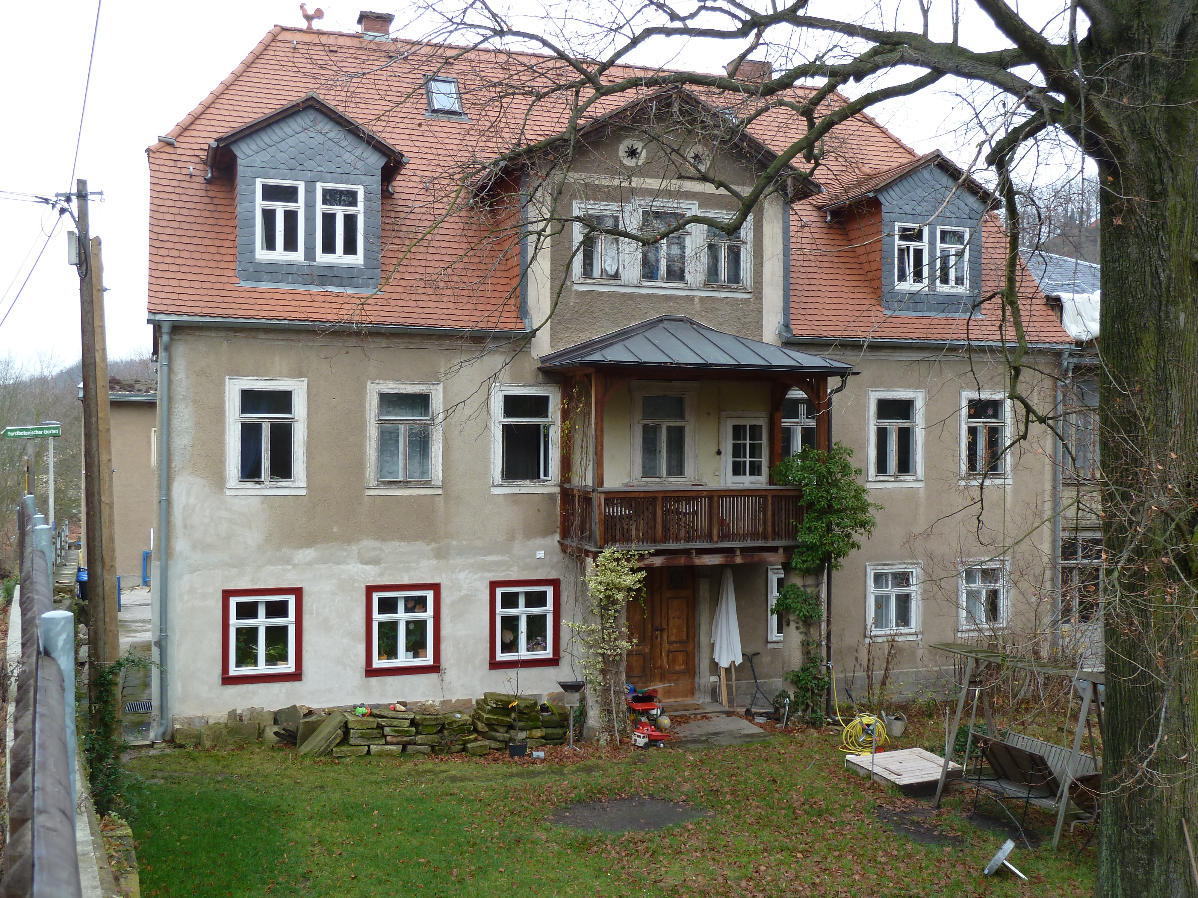 Chemistry Research Laboratory Building 1844–1931.